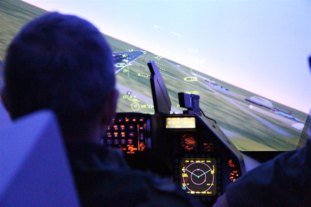 SPRINGFIELD, Ohio — Lt. Gen. Miloje Miletic, Serbian chief of defense, attempts to land an F-16 Fighting Falcon jet aircraft on a flight simulator March 4 during a visit Springfield Air National Guard Base. Miletic and Hungarian Chief of Defense Gen. Lazlo Tombol visited Ohio for a trilateral conference between Ohio National Guard leaders and its two State Partnership Program partner countries.